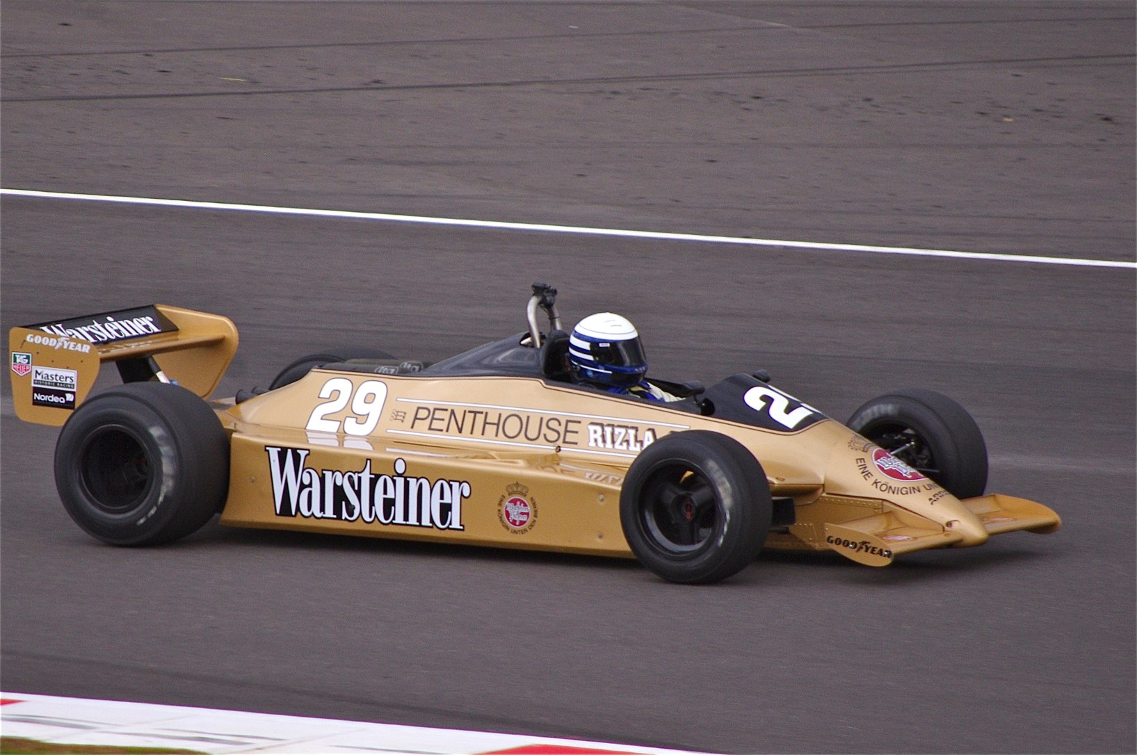 An Arrows A3 Formula One car, at the Silverstone Classic race meeting, 2011.